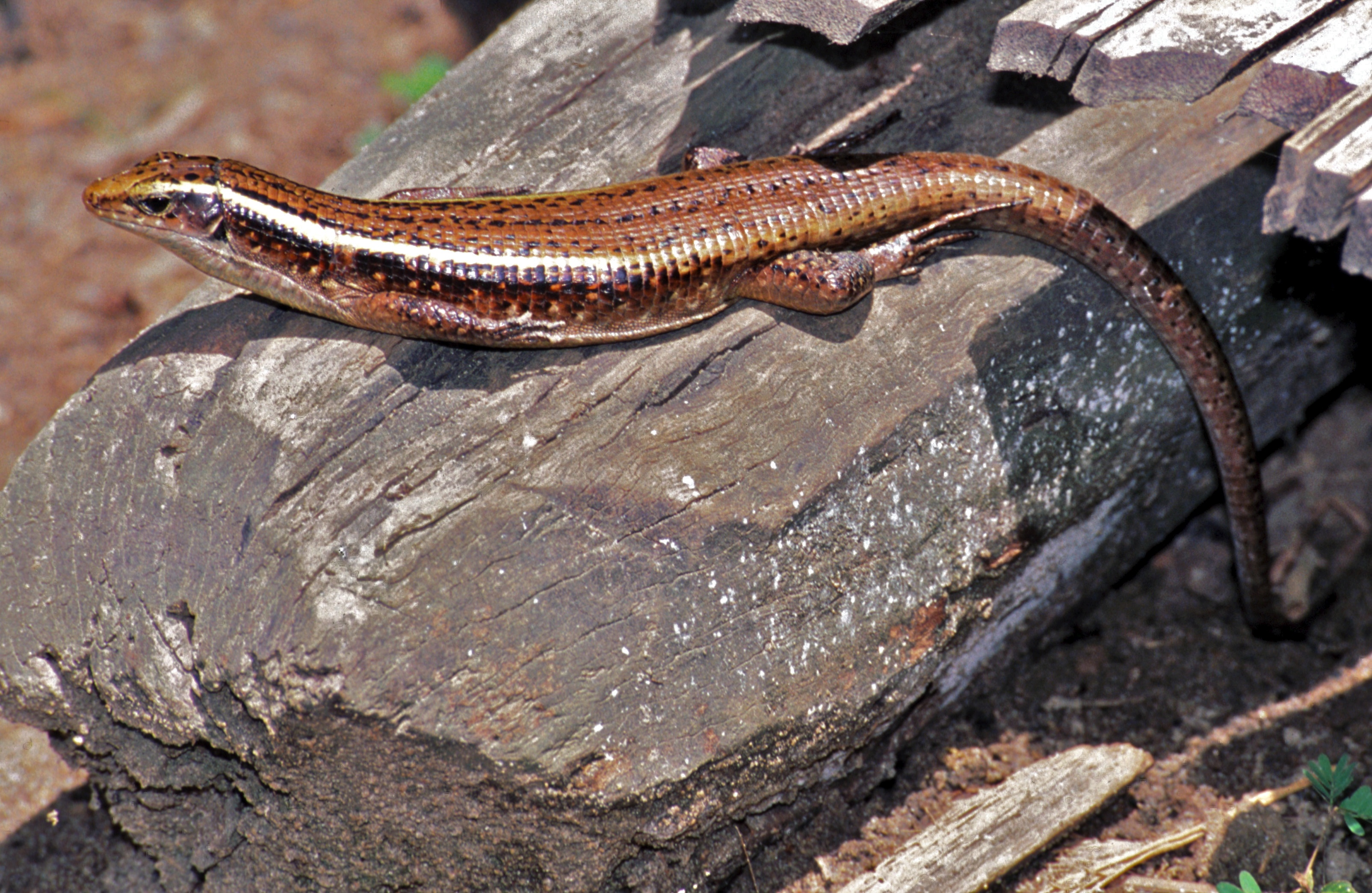 Mahambo, MADAGASCAR Scanned Slide from 2004